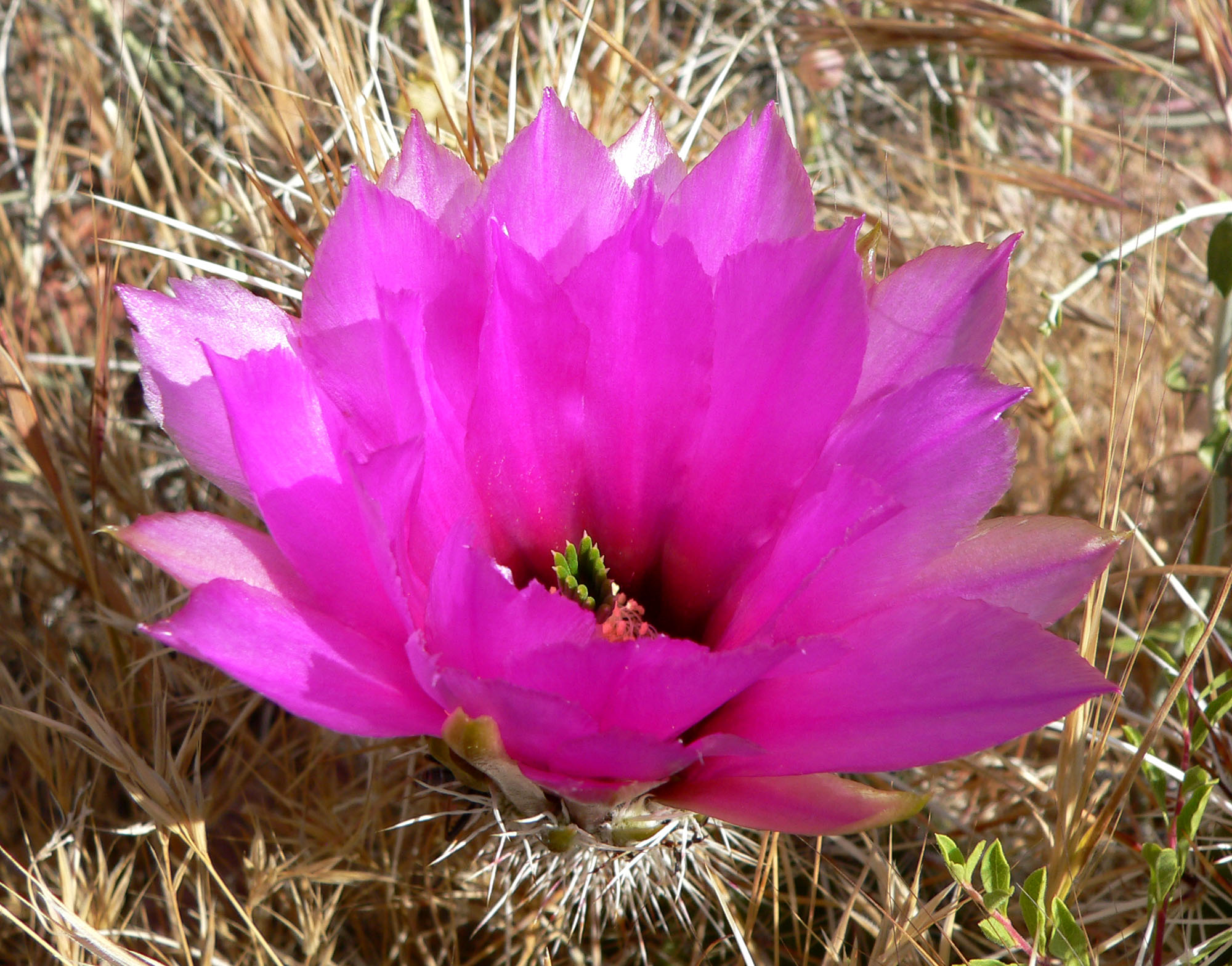 Echinocereus engelmannii — Engelmann's hedgehog cactus; flower. In the Mojave Desert in the Calico Basin of the Red Rock Canyon area, west of Las Vegas, Nevada.